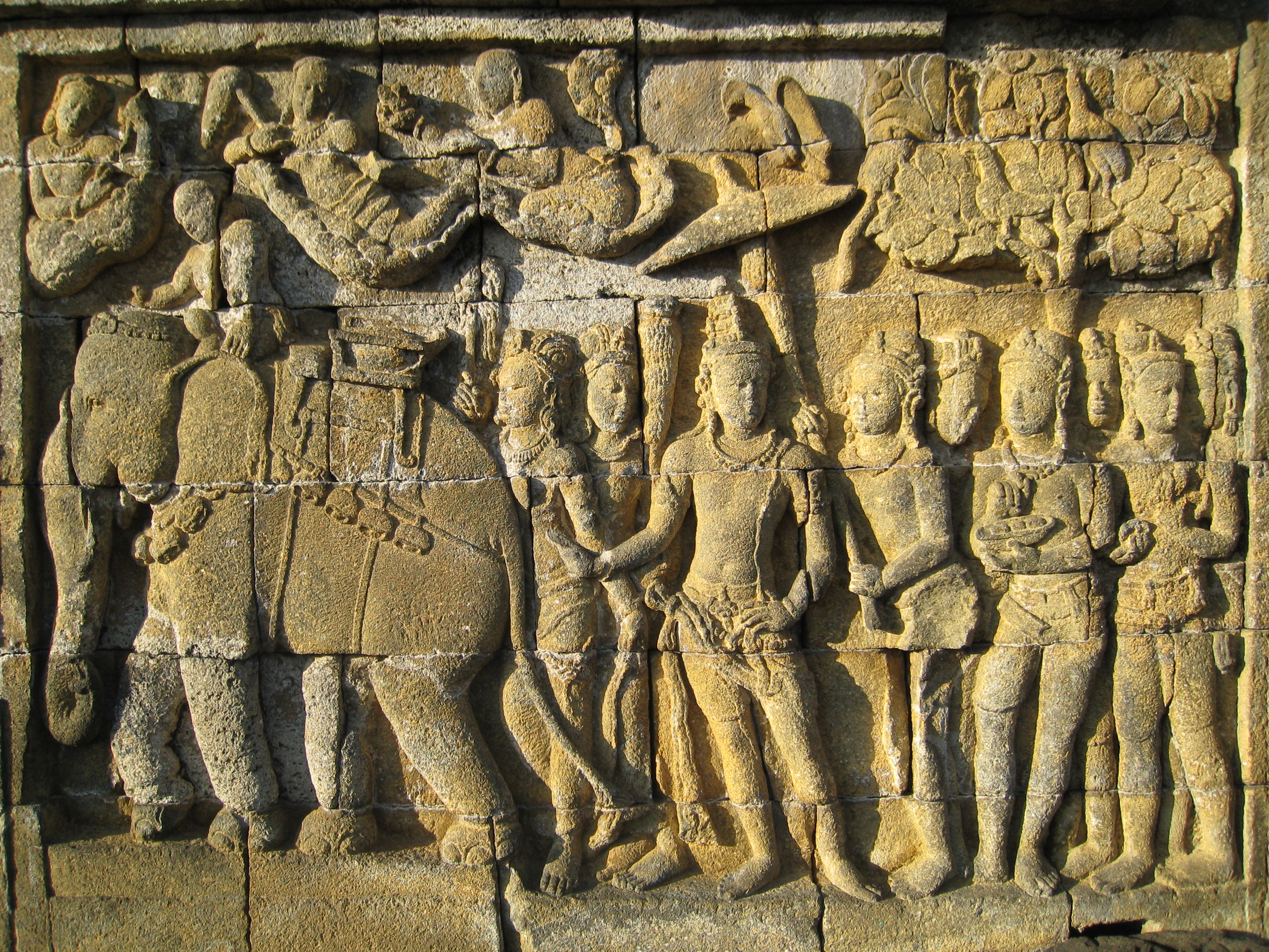 065 Gandavyuha, Level 2, North Wall Inner Wall at Borobudur Photograph of a Gandavyuha relief at Borobudur in Java, Indonesia taken by Anandajoti.